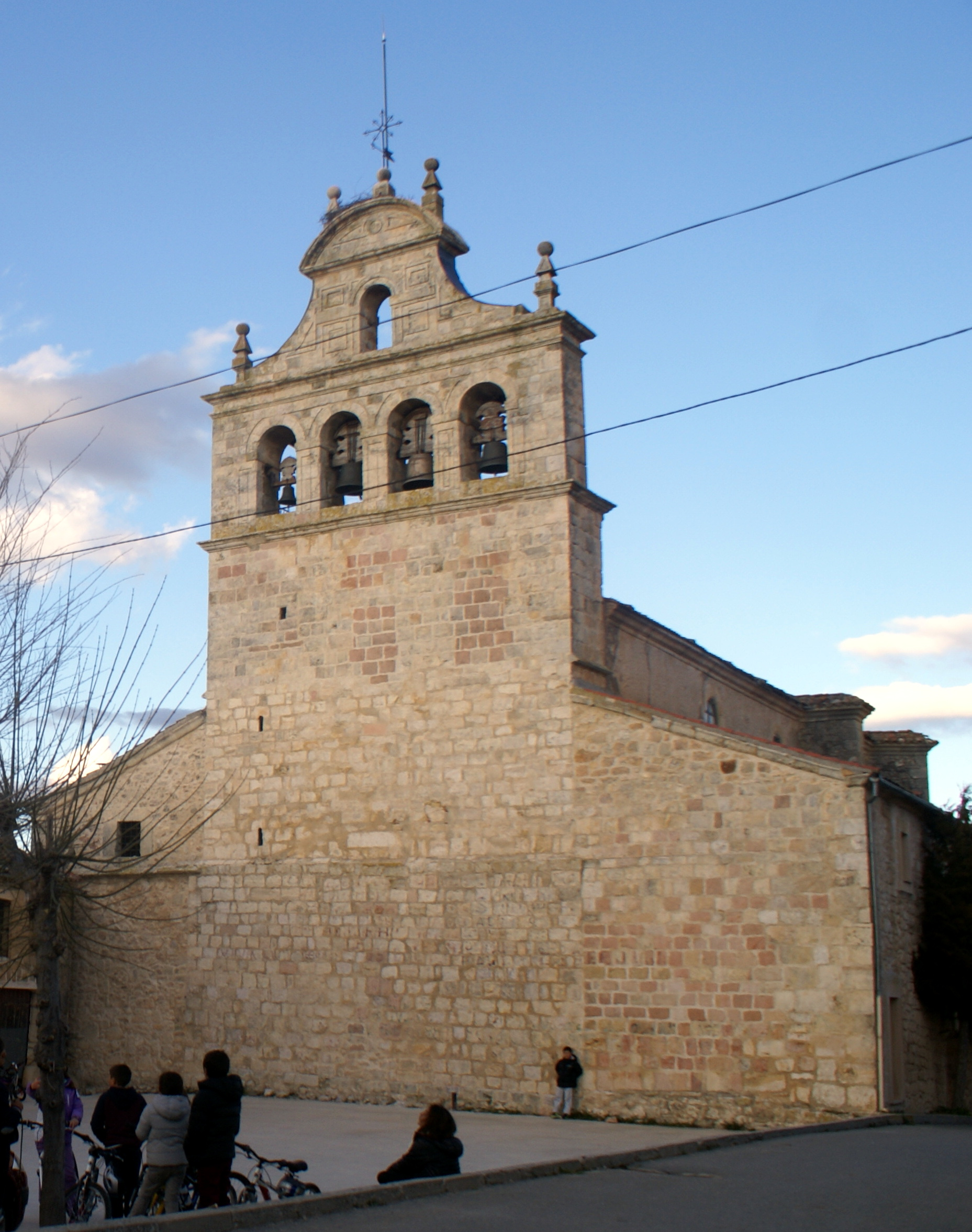 Church of Urueñas, Segovia, Spain.